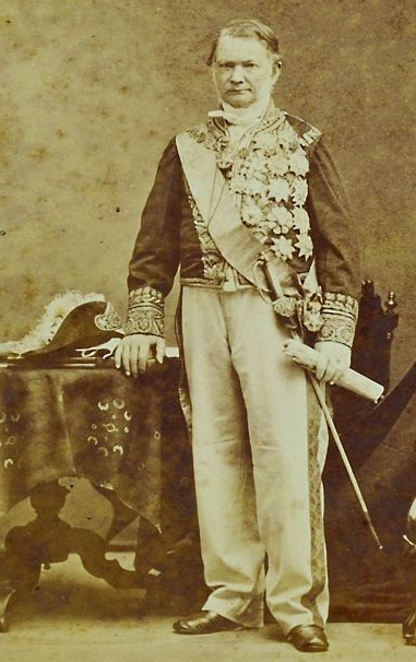 António José Ávila, Duque de Ávila (1806-1881), Portuguese politician.